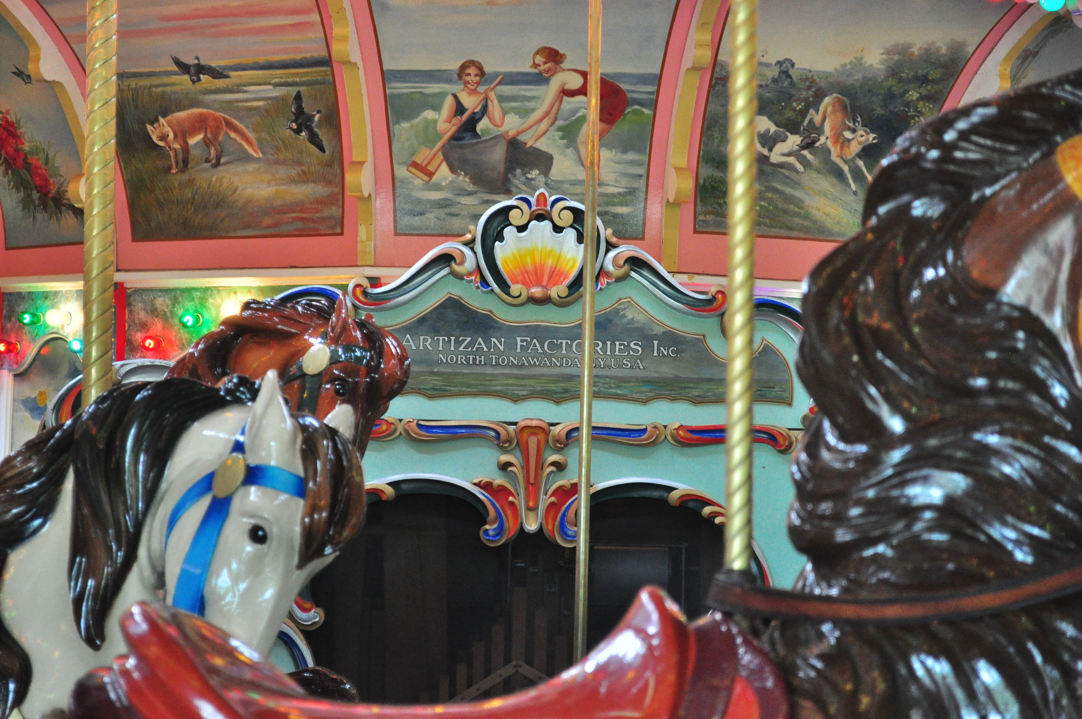 Holyoke Merry-Go Round carousel 10